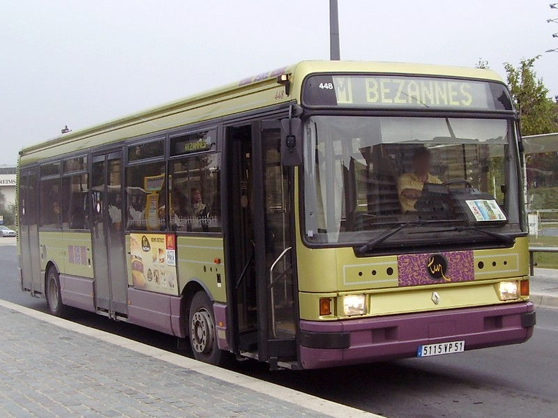 Renault R312 from TUR Rheims network.